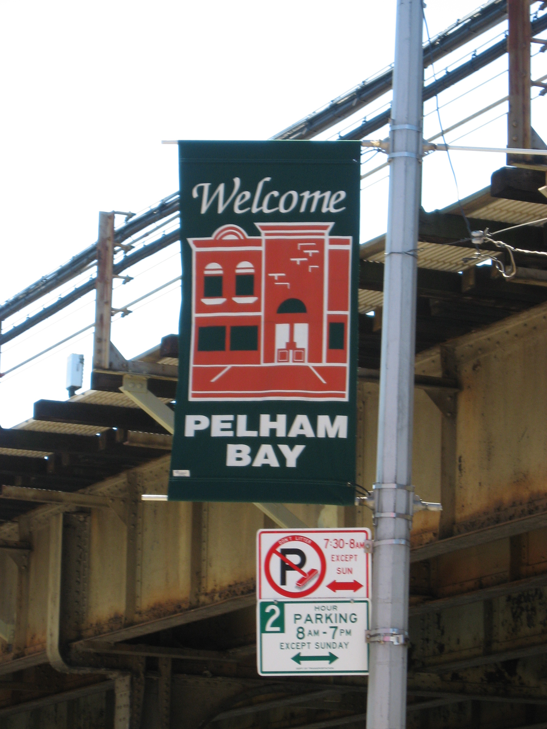 A civic promotional sign for the Pelham Bay neighborhood in The Bronx, located on Westchester Avenue, with the IRT Pelham Line in the background.